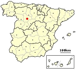 Location of Valladolid in Spain.